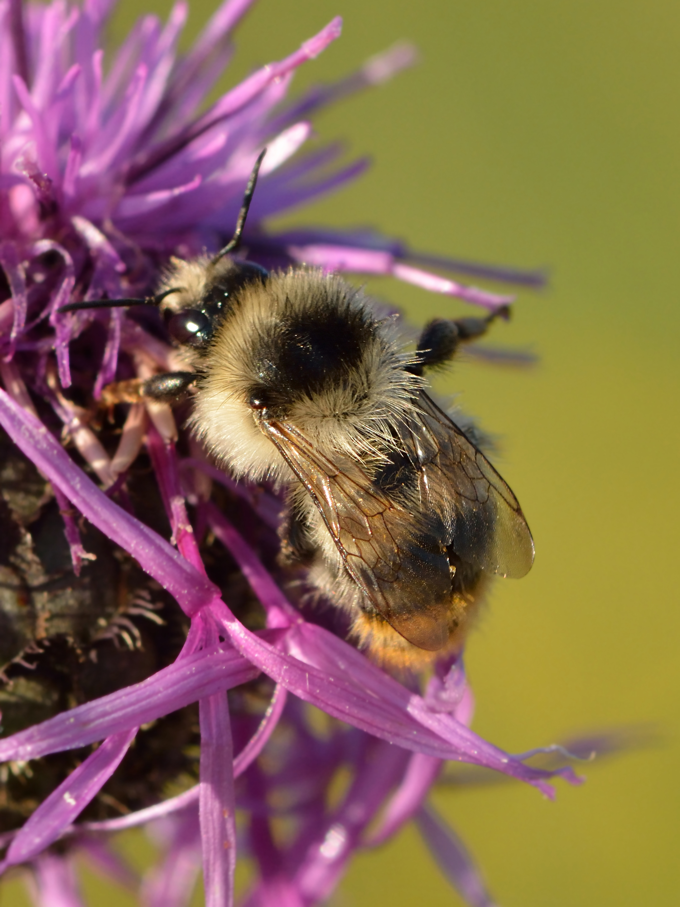 Shrill carder bee (Bombus Sylvarum) on the greater knapweed (Centaurea scabiosa). Keila, Northwestern Estonia.